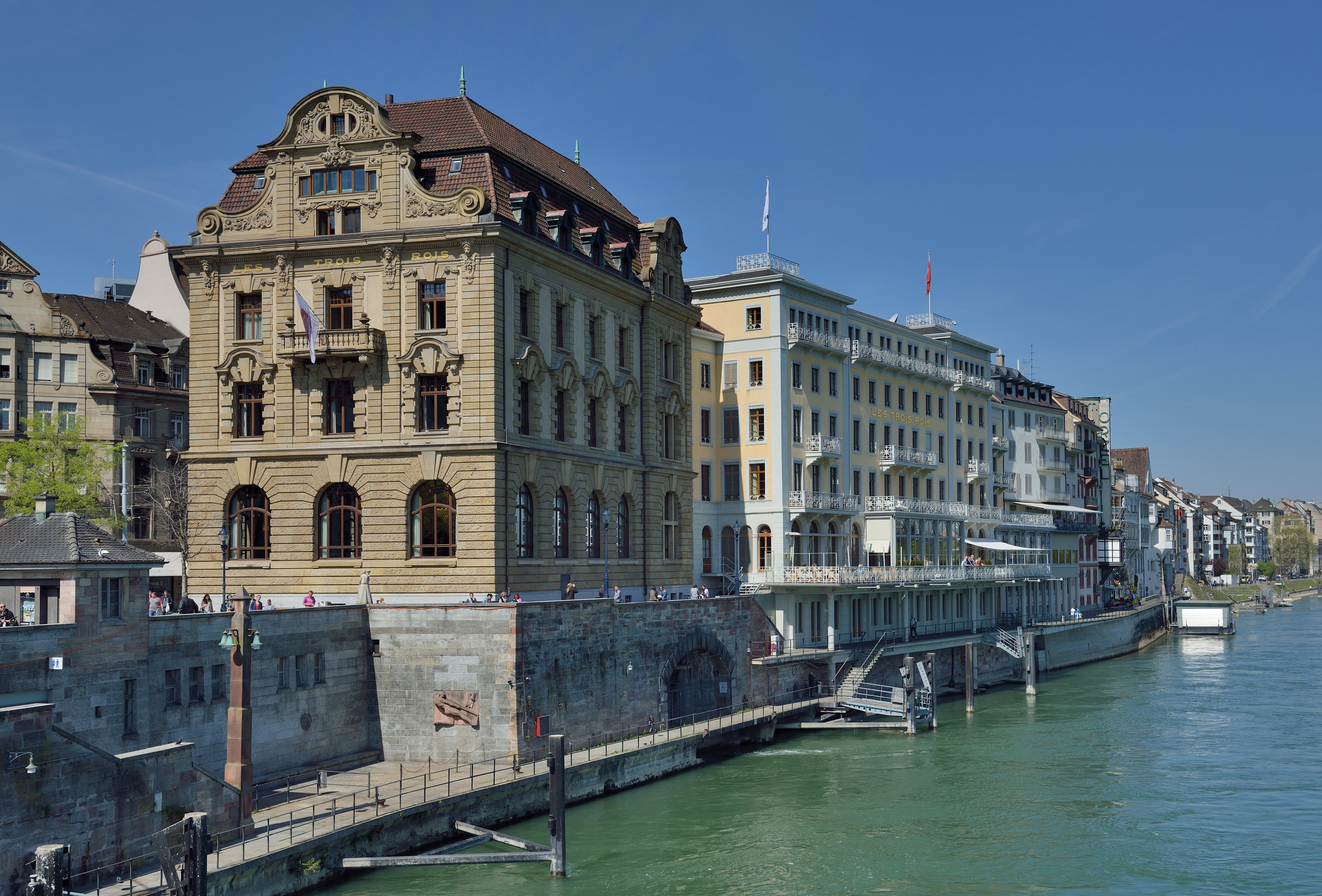 Basel: Hotel Dreikönig